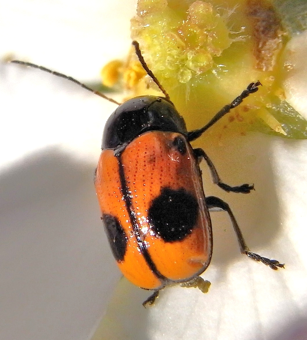 Cryptocephalus bipunctatus from Hungary, from Villany-hills at 2010-05-07 Ricoh R8